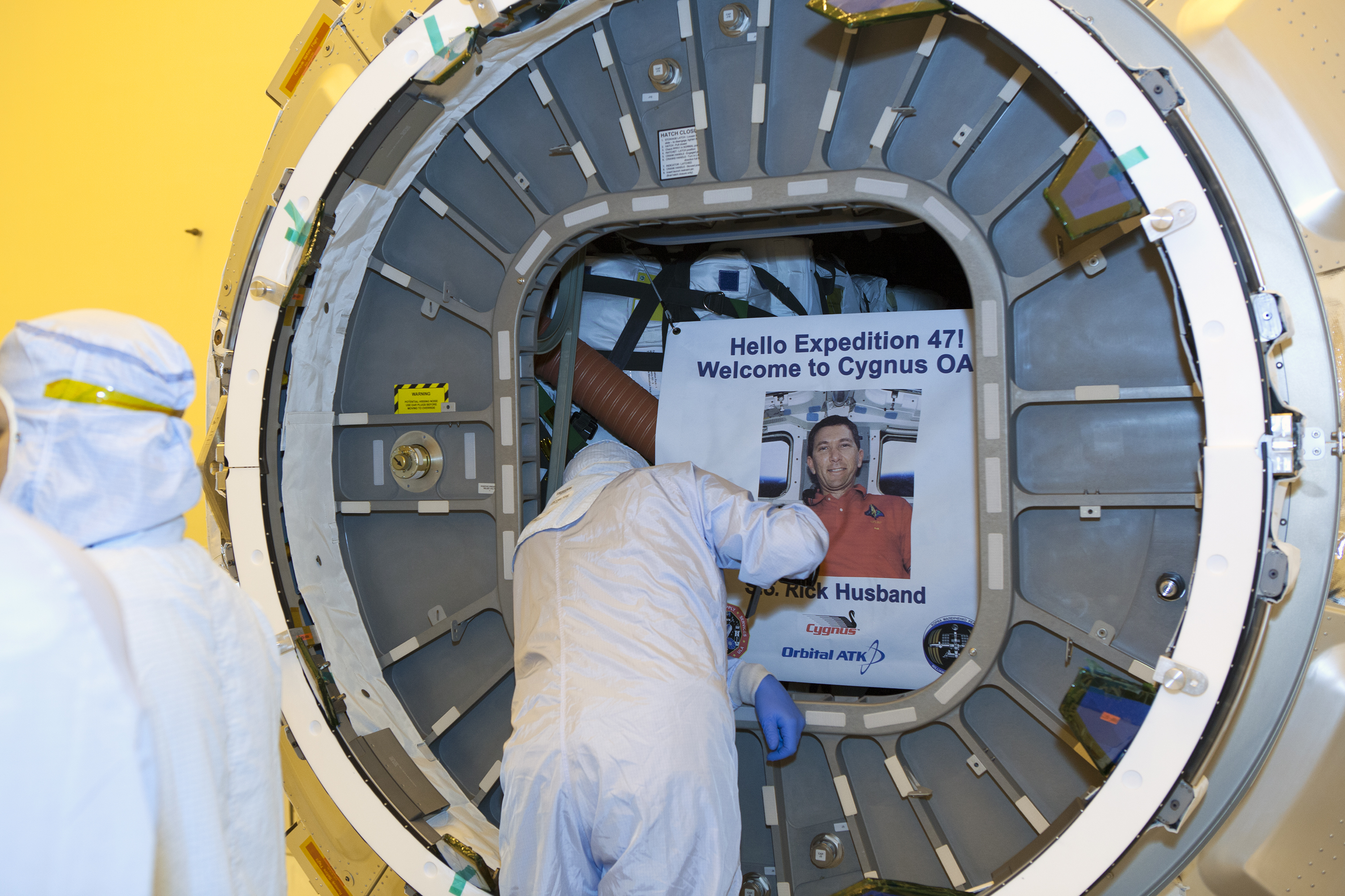 Inside the Payload Hazardous Servicing Facility at NASA's Kennedy Space Center in Florida, the hatch is closed for the upcoming flight of a Cygnus cargo vessel. The spacecraft is scheduled for the upcoming Orbital ATK Commercial Resupply Services-6 mission to deliver hardware and supplies to the International Space Station. When members of the ISS Expedition 47 crew open the hatch, they will be greeted with a sign noting the spacecraft was named SS Rick Husband in honor of the commander of the STS-107 mission. On that flight, the crew of the space shuttle Columbia was lost during re-entry on Feb. 1, 2003. The Cygnus is scheduled to lift off atop a United Launch Alliance Atlas V rocket on March 22.